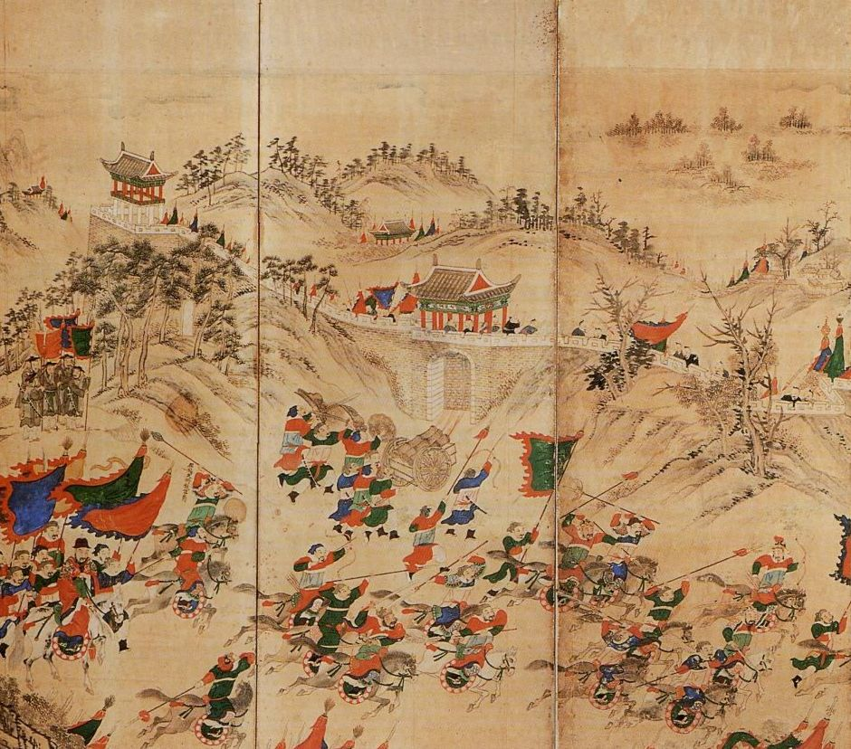 Paint of Siege of Pyongyang in 1593